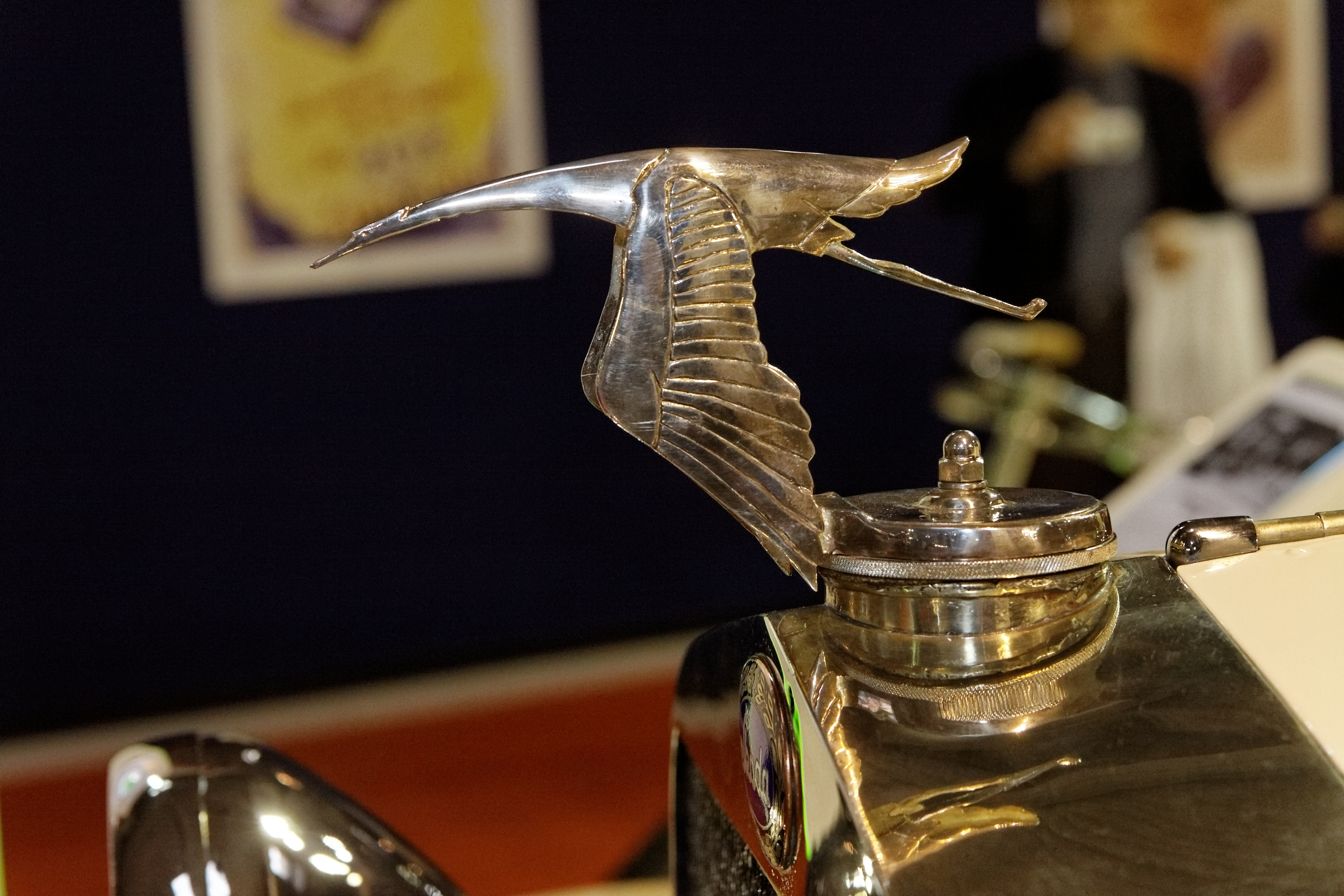 Škoda Hispano-Suiza from 1928 with cabriolet car body style from Prague coachbuilder J.O.Jech.